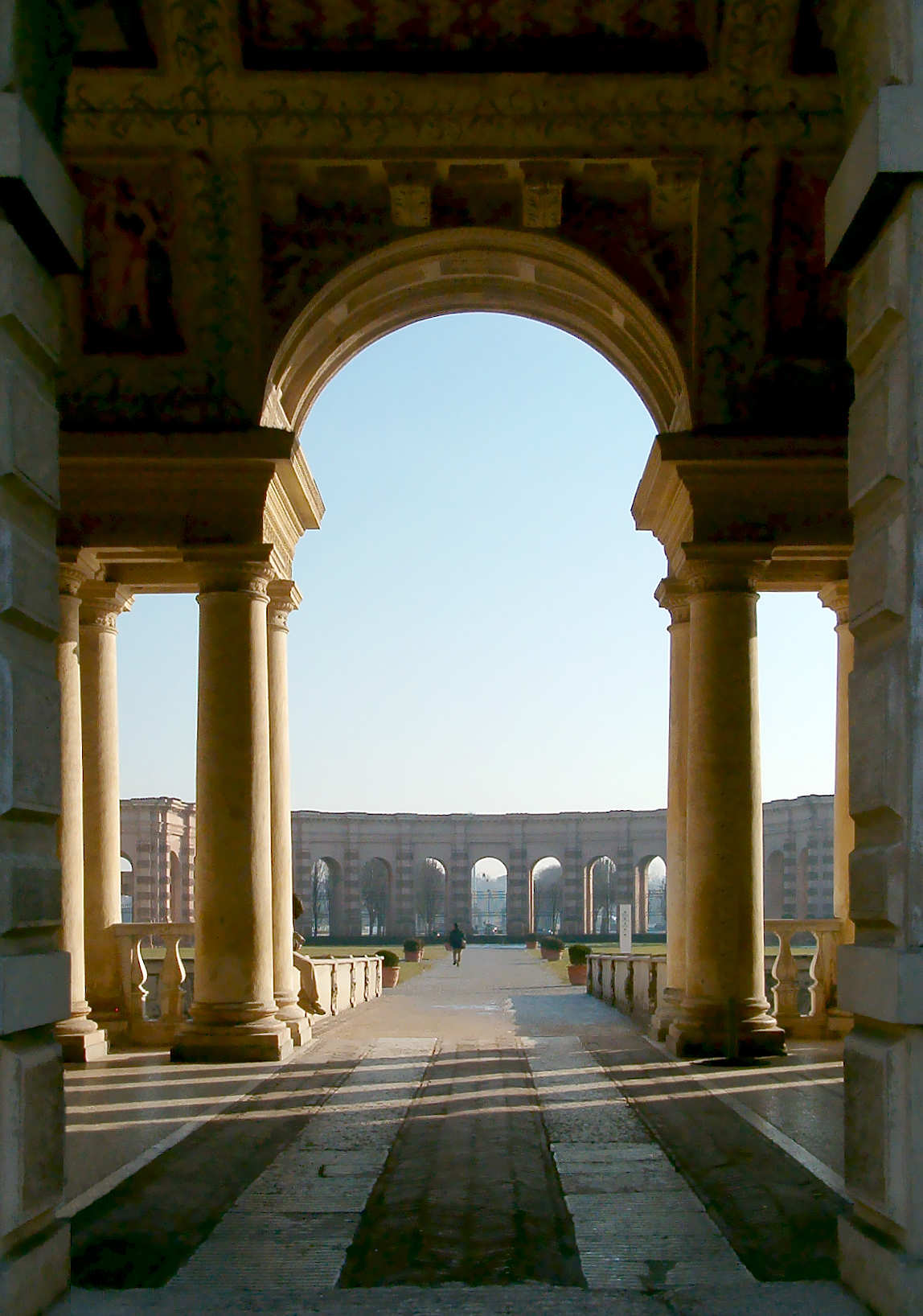 In the Palazzo Te, Mantua. Variations on the "Serlian window" theme are developed throughout the building.